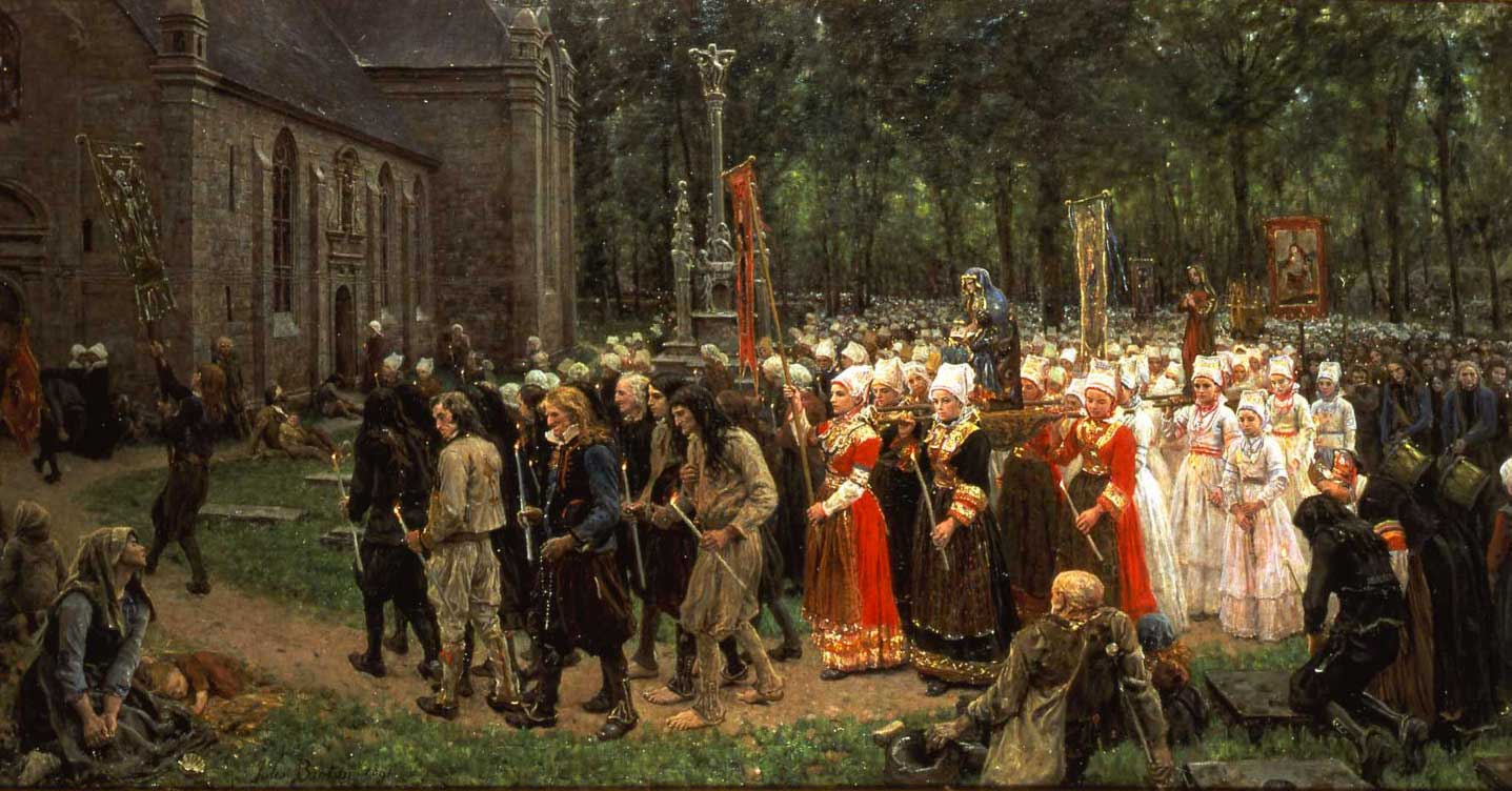 Pardon at Kergoat, an oil painting on canvas depicting a pardon ceremony at Kergoat in Brittany, France